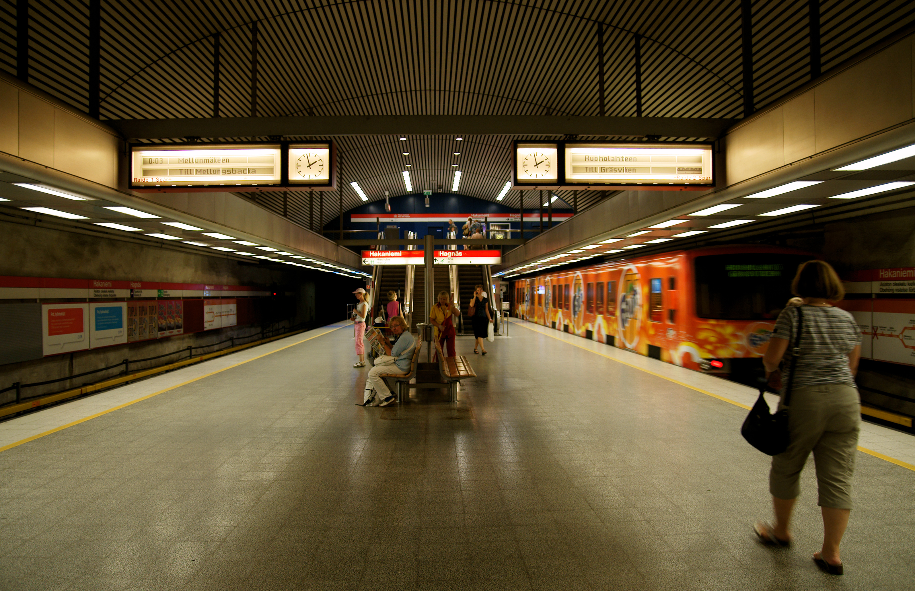 Hakaniemi metro station in Helsinki, Finland.